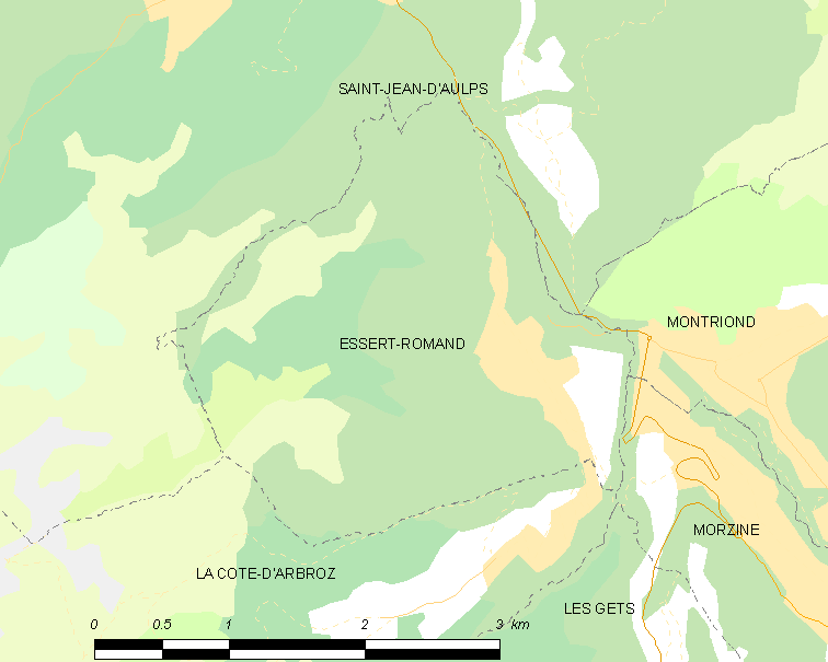 Map of French municipality Essert-Romand